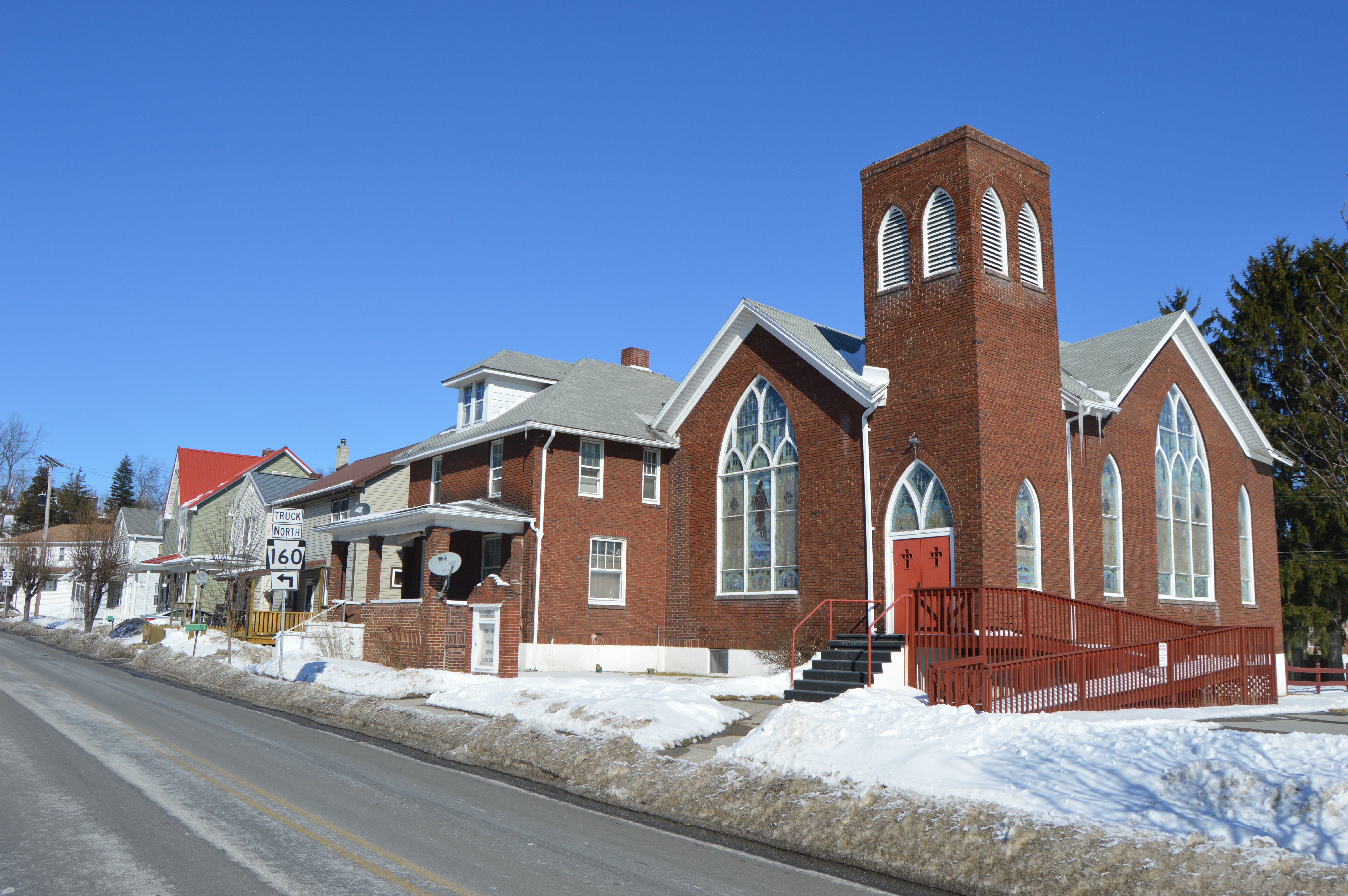 Looking north on Main Street (Pennsylvania Route 160) from the Church Street intersection in Wilmore, Pennsylvania, United States.